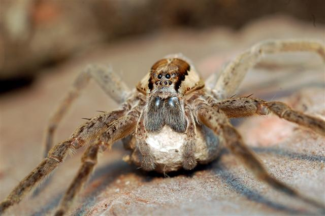 New Zealand Nursery Web Spider Dolomedes minor, female carrying egg sac. She may carry this egg sac for two to three weeks. A few days before the spiderlings hatch the mother makes a large white nursery web. The spiderlings will stay in the nursery web until their first moult.